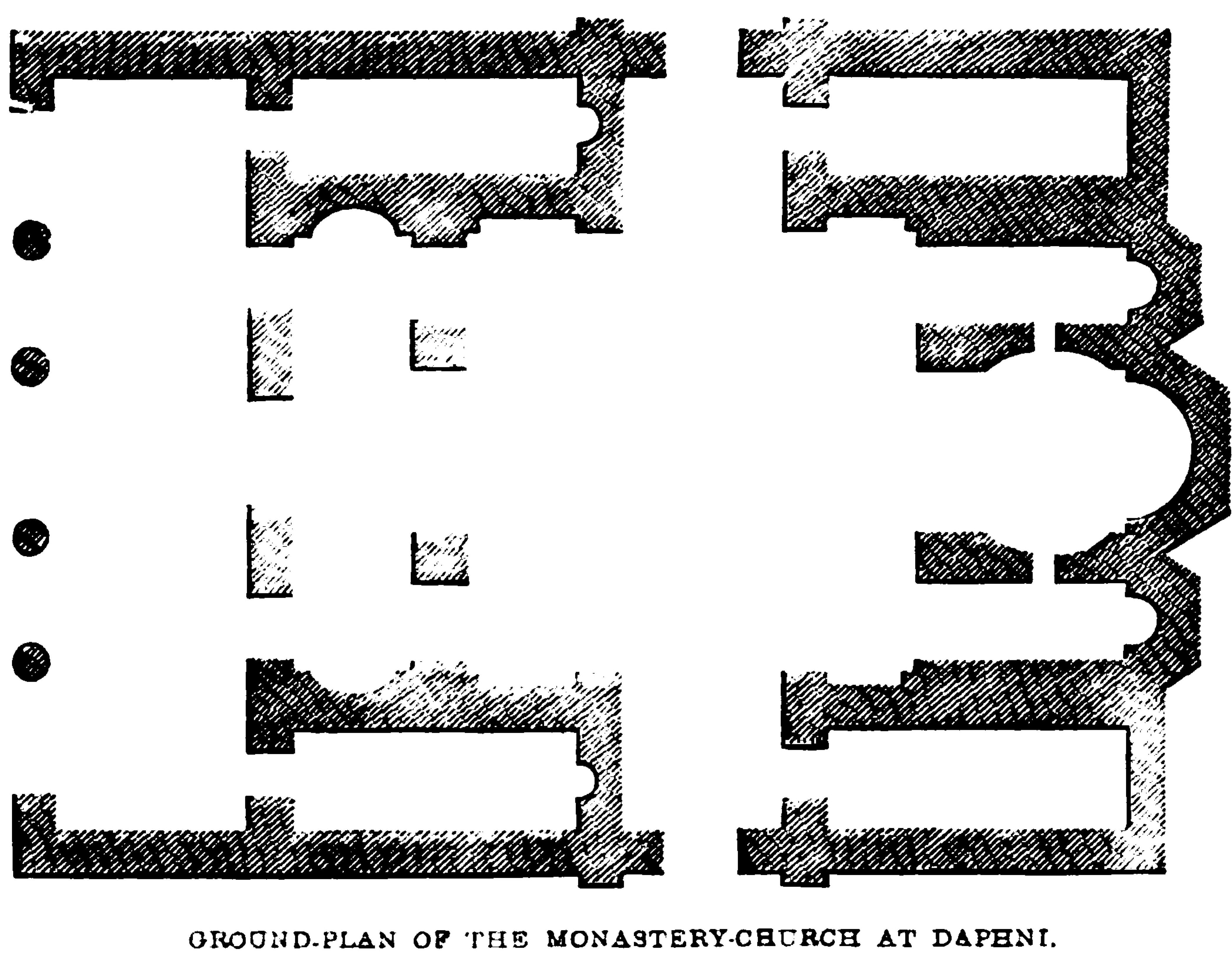 A history of the Holy Eastern Church: General introduction, Volume 1